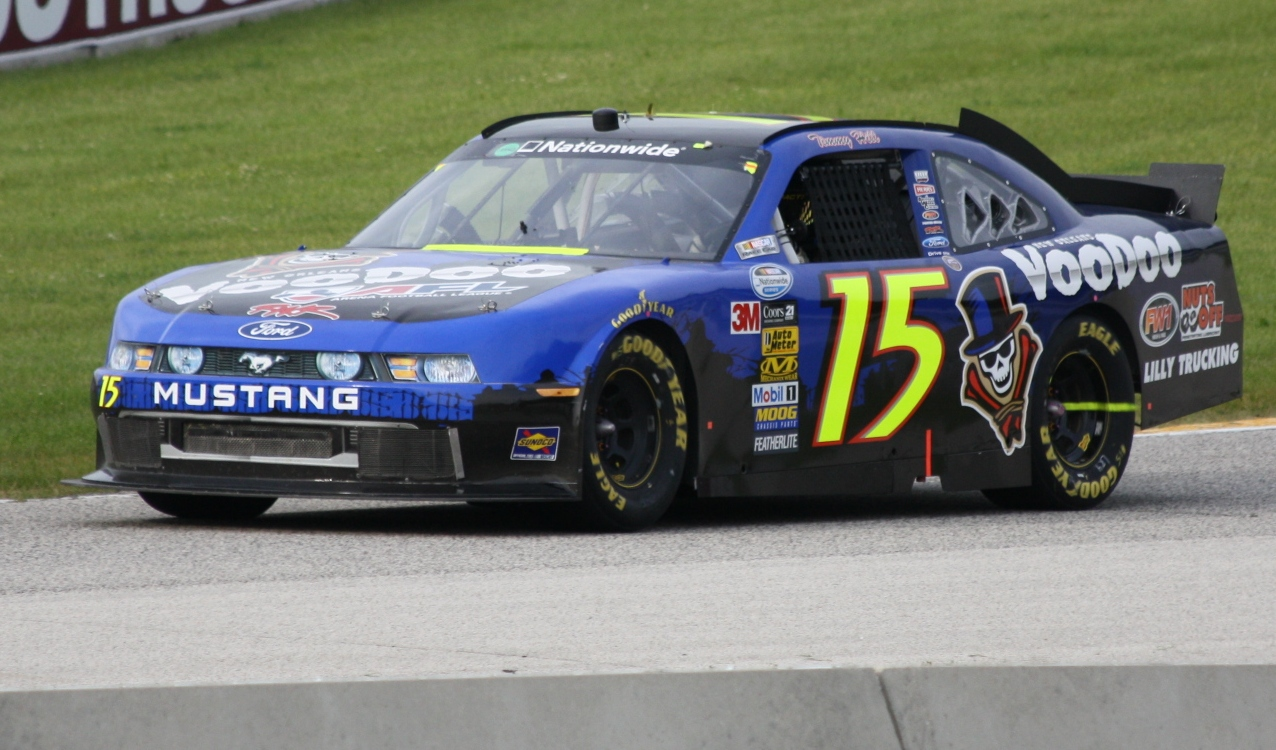 NASCAR driver Timmy Hill racing his stock car at Road America at the 2011 Bucyros 200 Nationwide Series race.